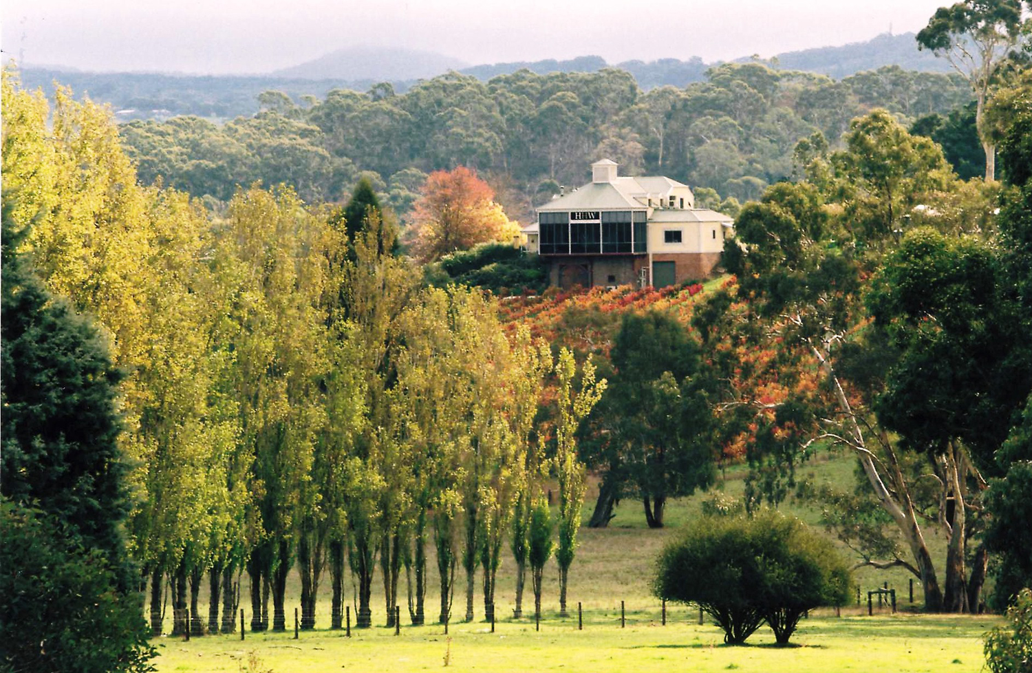 Hahndorf Hill Winery set amongst the rolling Adelaide Hills.